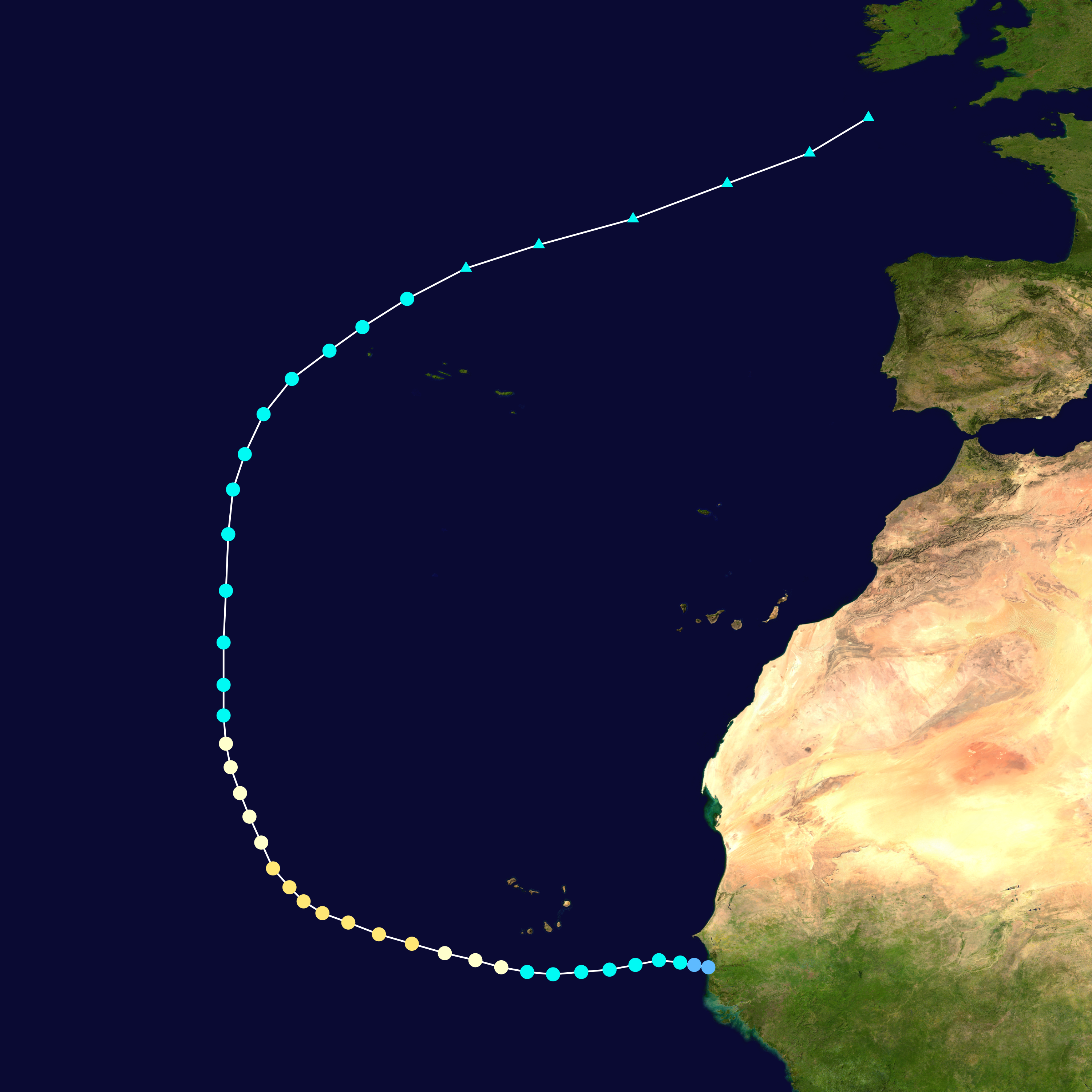 Track map of Hurricane Helene (2018) of the 2018 Atlantic hurricane season. The points show the location of the storm at 6-hour intervals. The colour represents the storm's maximum sustained wind speeds as classified in the Saffir–Simpson scale (see below), and the shape of the data points represent the nature of the storm, according to the legend below. Saffir–Simpson scale Tropical depression≤38 mph≤62 km/h Category 3111–129 mph178–208 km/h Tropical storm39–73 mph63–118 km/h Category 4130–156 mph209–251 km/h Category 174–95 mph119–153 km/h Category 5≥157 mph≥252 km/h Category 296–110 mph154–177 km/h Unknown Storm type Tropical cyclone Subtropical cyclone Extratropical cyclone / Remnant low / Tropical disturbance / Monsoon depression